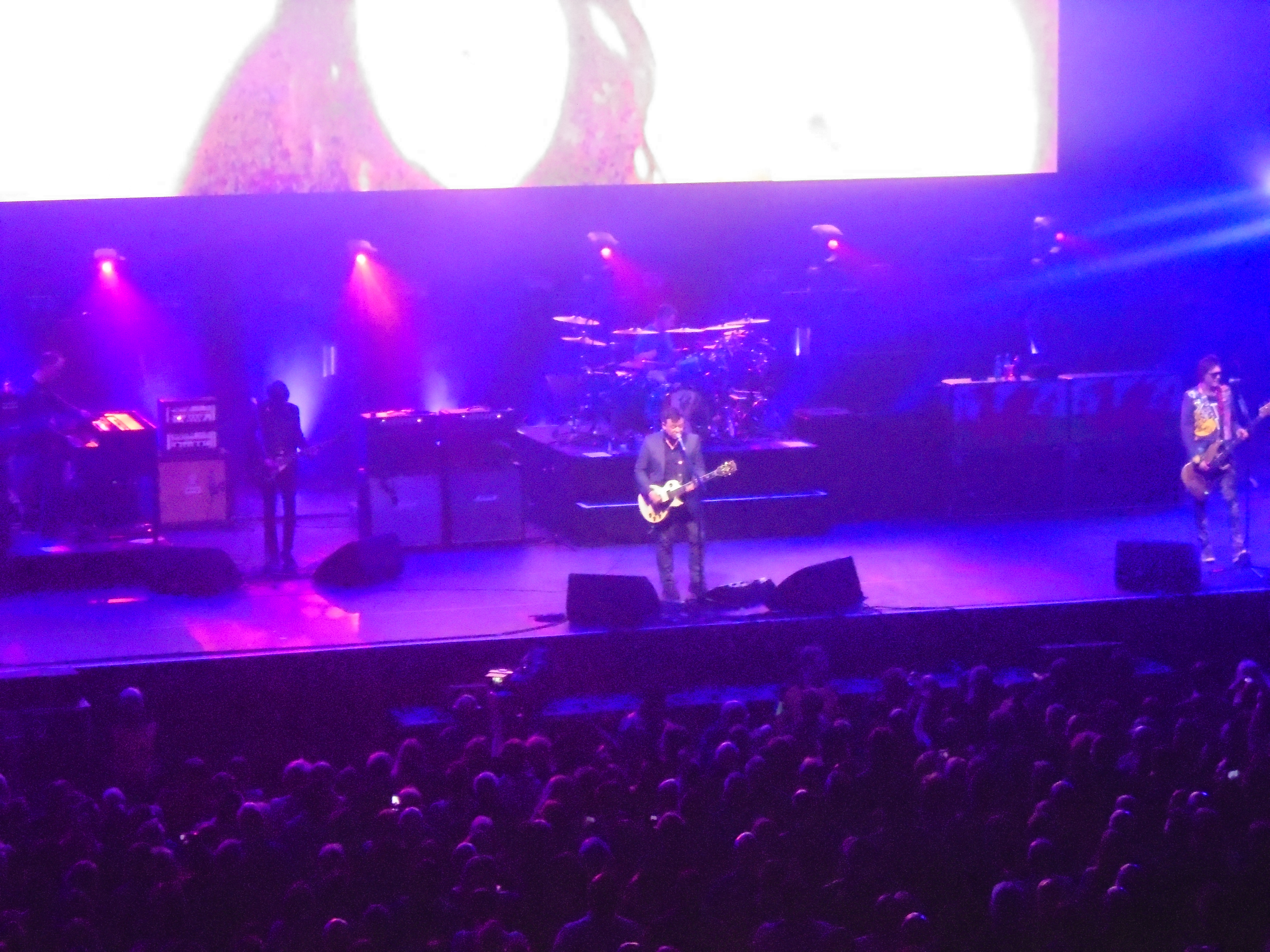 Manic Street Preachers at First Direct Arena, Leeds, West Yorkshire. James Bradfield can be seen during a performance of International Blue. Taken from the lower of the two raised tiers on the evening of Wednesday the 2nd of May 2018.